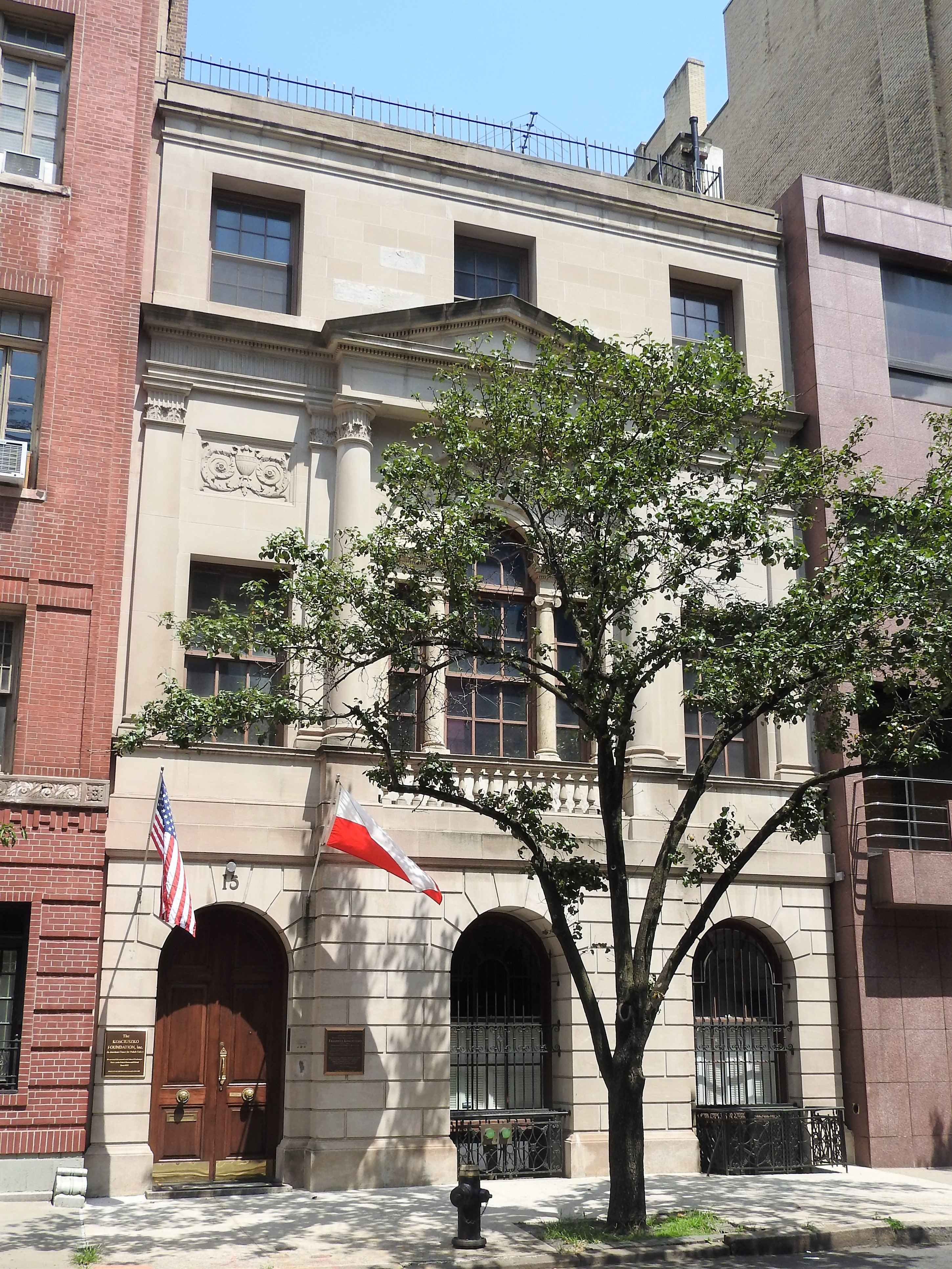 Looking northeast across 65th Street